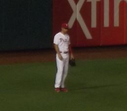 Grady Sizemore in left field as a defensive replacement in the ninth inning of the Phillies' victory on August 22, 2014